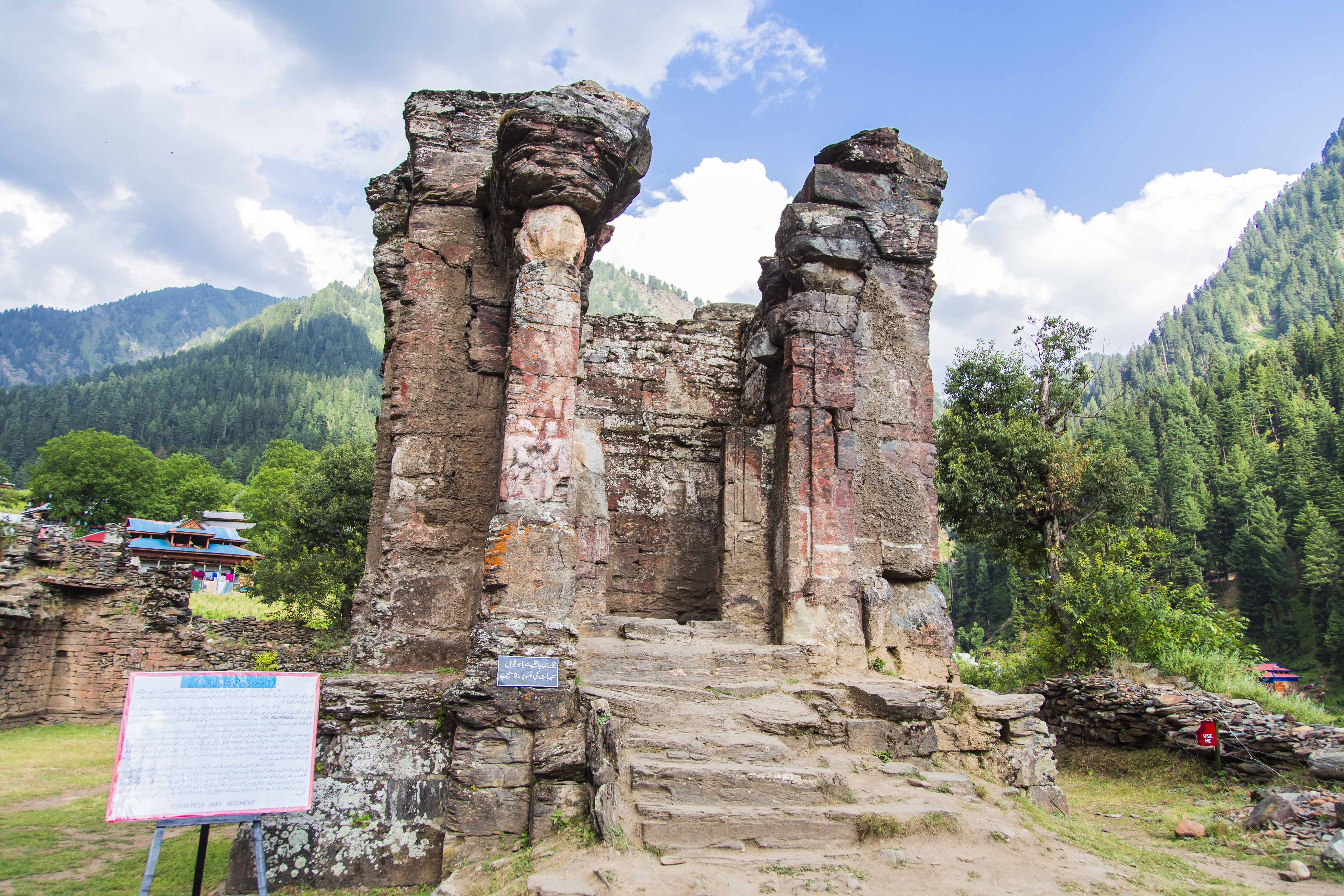 Sharda Peeth (Sharda Fort) This is a photo of a monument in Pakistan identified as the AJK-23